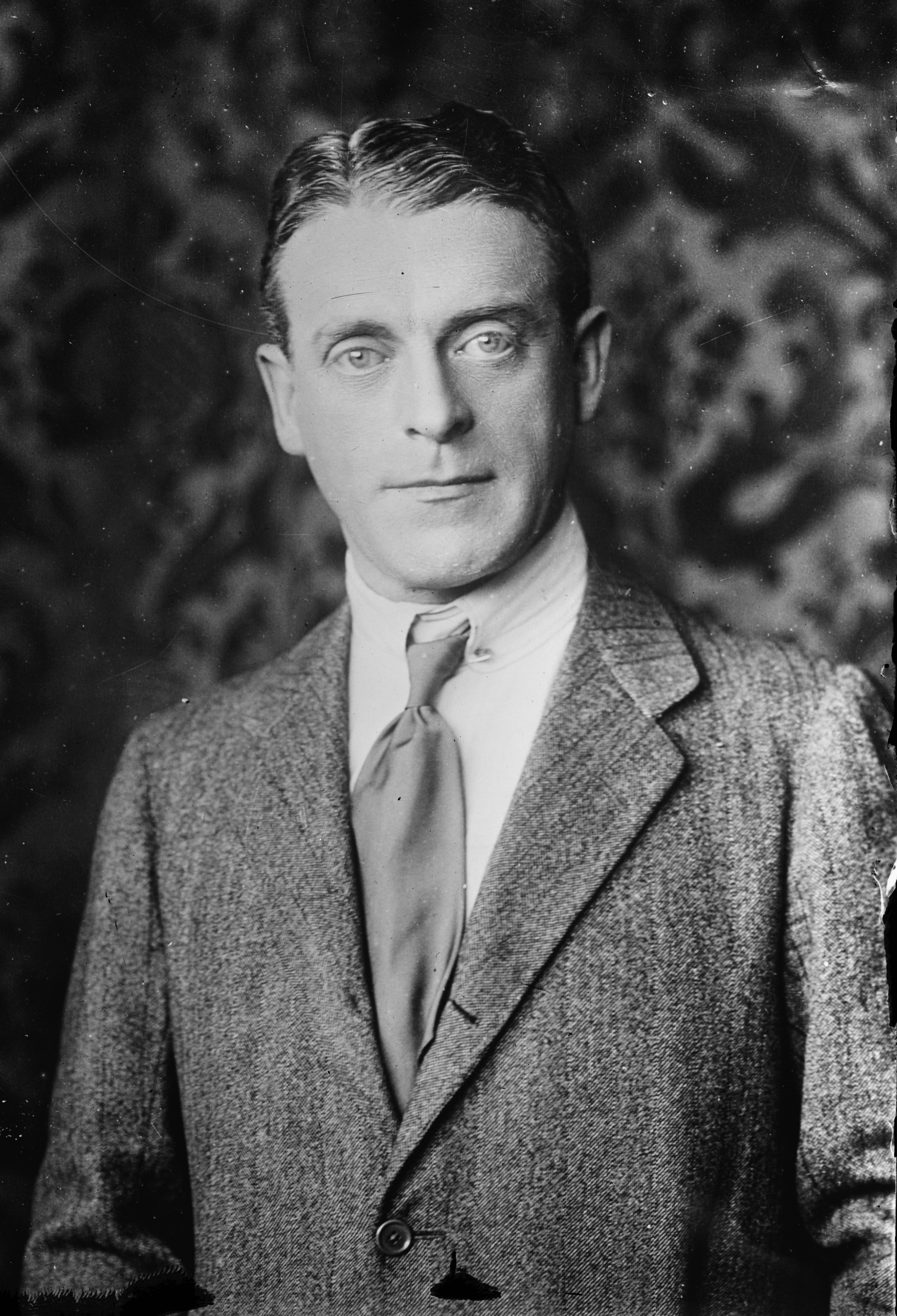 Bain News Service,, publisher. Cyril Maude [no date recorded on caption card] 1 negative : glass ; 5 x 7 in. or smaller. Notes: Title from unverified data provided by the Bain News Service on the negatives or caption cards. Forms part of: George Grantham Bain Collection (Library of Congress). Format: Glass negatives. Repository: Library of Congress, Prints and Photographs Division, Washington, D.C. 20540 USA, General information about the Bain Collection is available at Persistent URL: Call Number: LC-B2- 2745-4